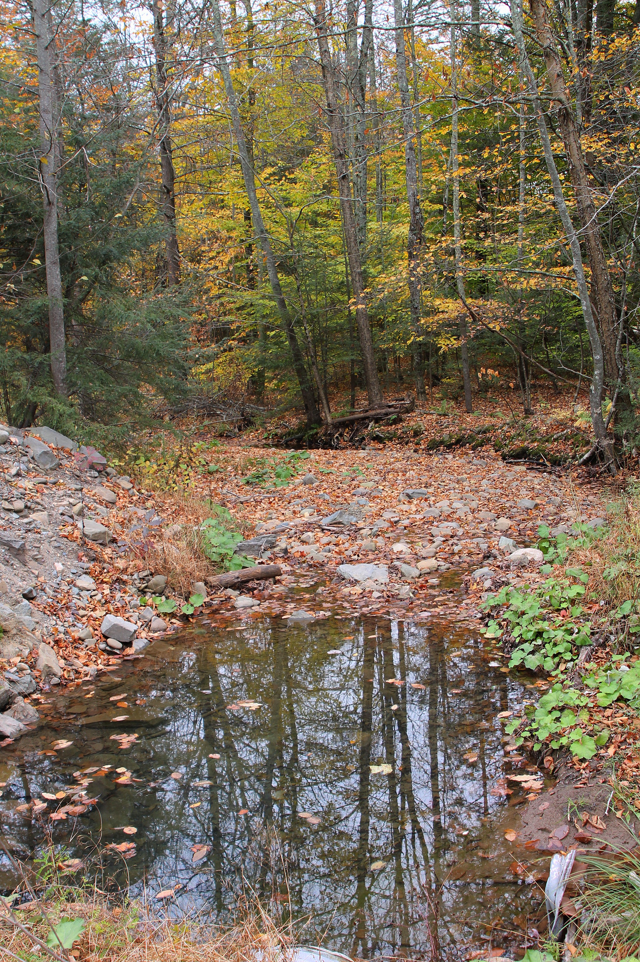 York Run looking downstream near its mouth in low flow conditions